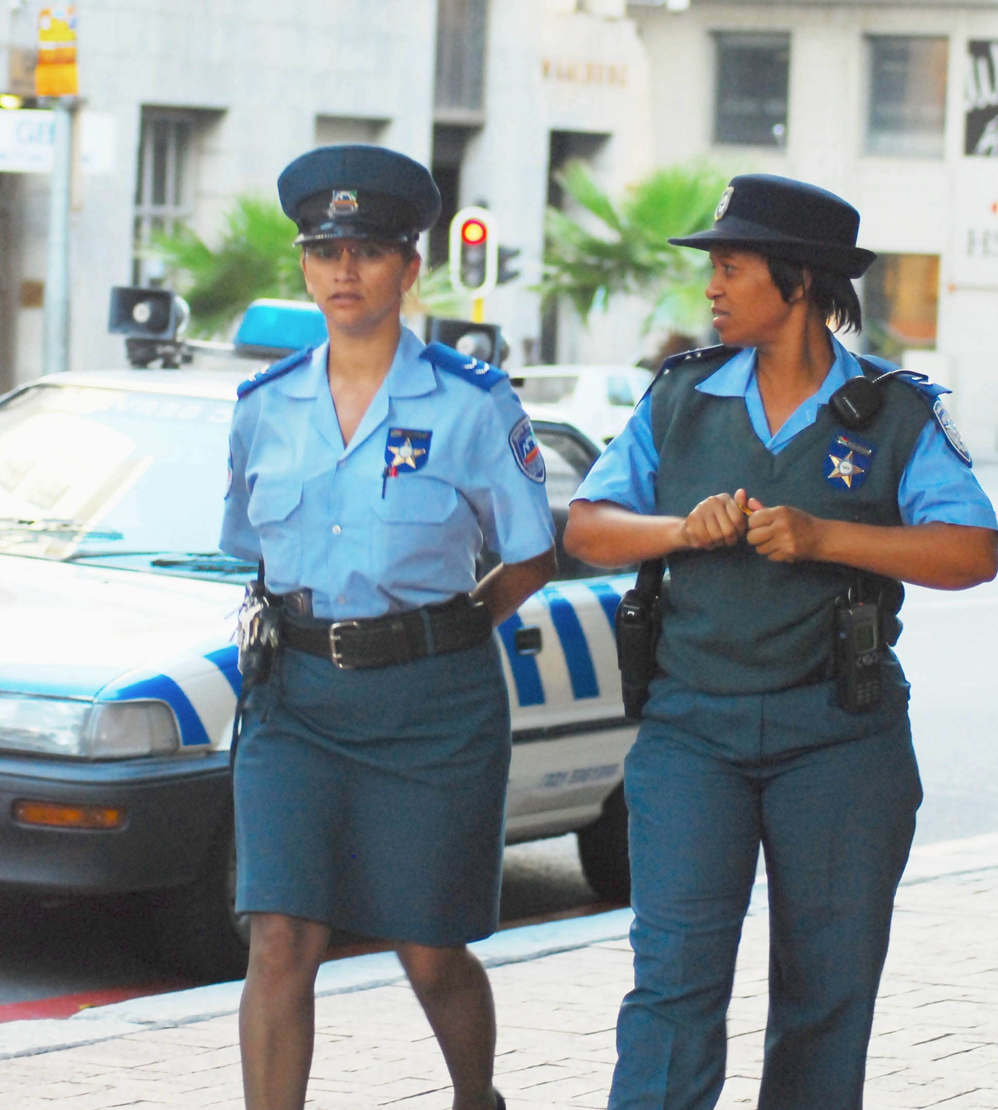 Police of South Africa, in Cape Town